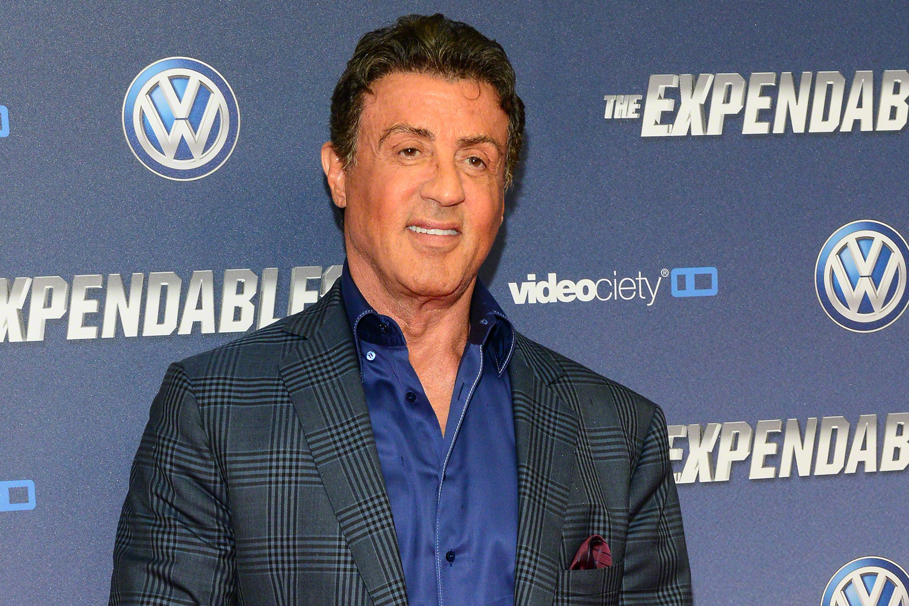 Sylvester Stallone attend the German premiere of the film "The Expendables 3" at Residenz cinema on August 6, 2014 in Cologne, Germany.